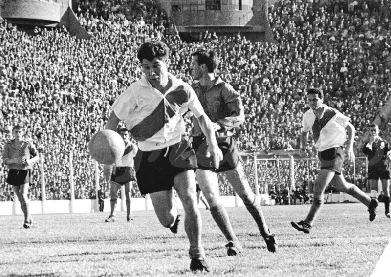 Argentine football player, Omar Sívori, playing for River Plate v. C.A. Huracán.